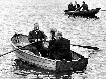 French Prime Minister Georges Pompidou and Swedish Prime Minister Tage Erlander in the rowing boat at Harpsund.